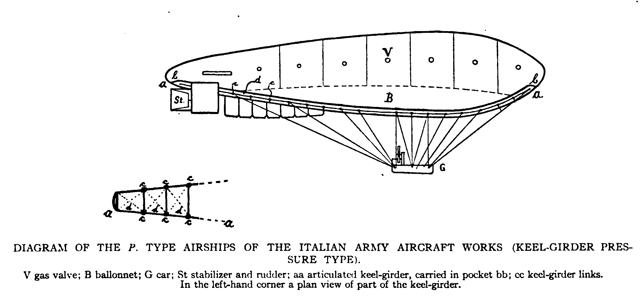 Italian P-class semi-rigid airship drawing